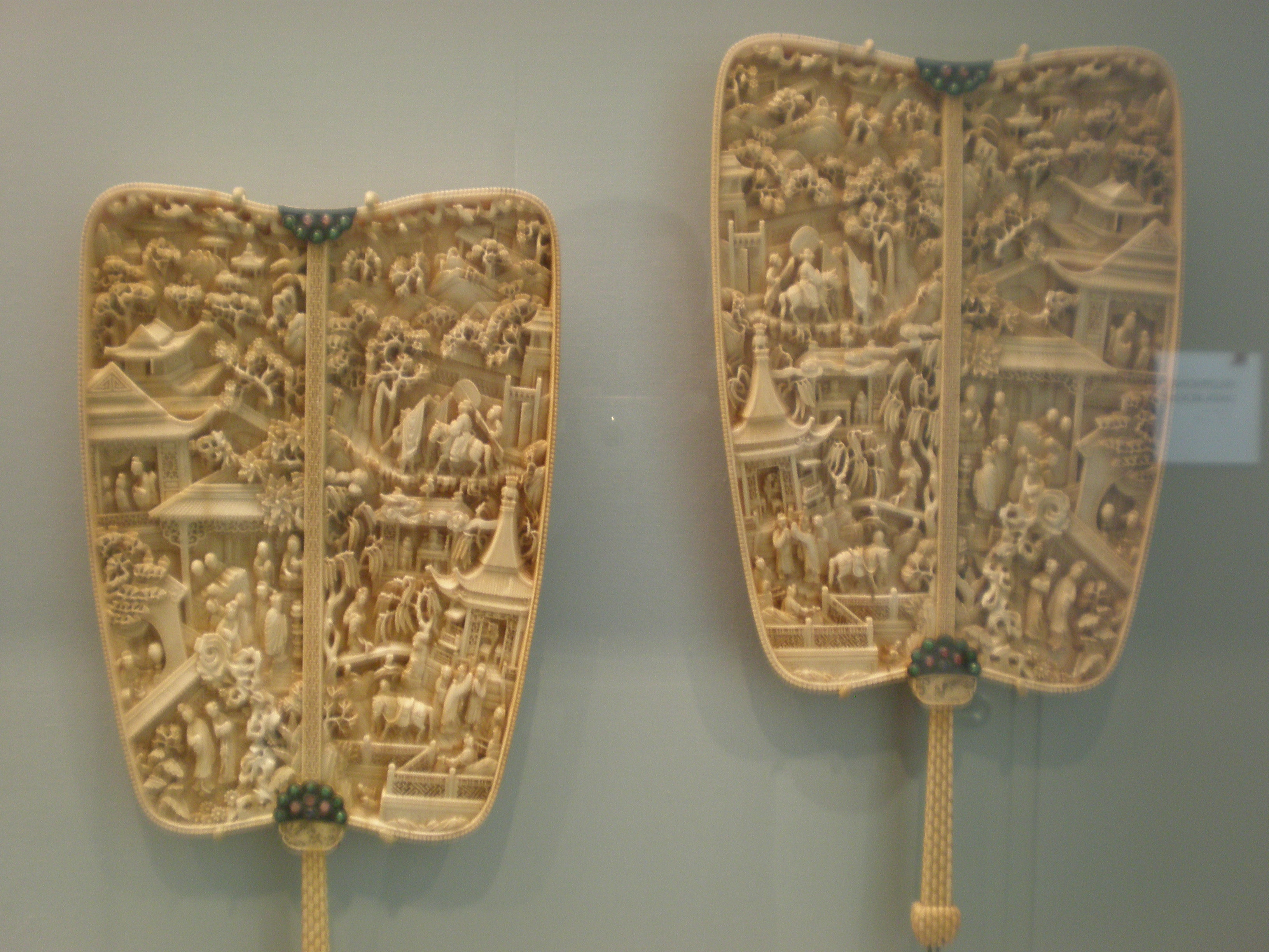 A pair of ivory fans depicting scenes from Romance of the Western Chamber, approx. 1800-1911, Qing Dynasty. On display at the Asian Art Museum in San Francisco, California. 1992.93.1.2